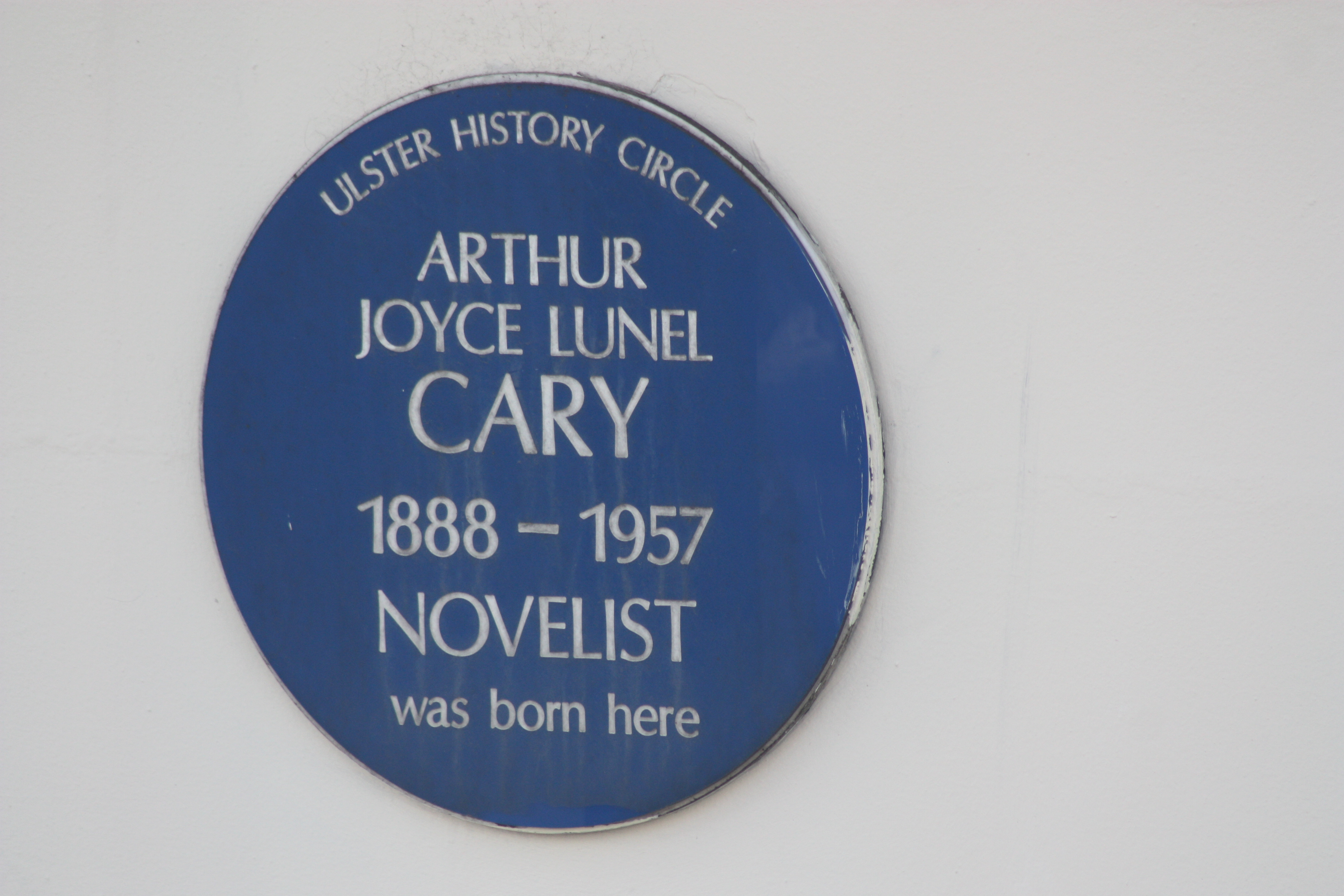 Joyce Cary blue plaque, Bank Place, Derry, County Londonderry, Northern Ireland, August 2009